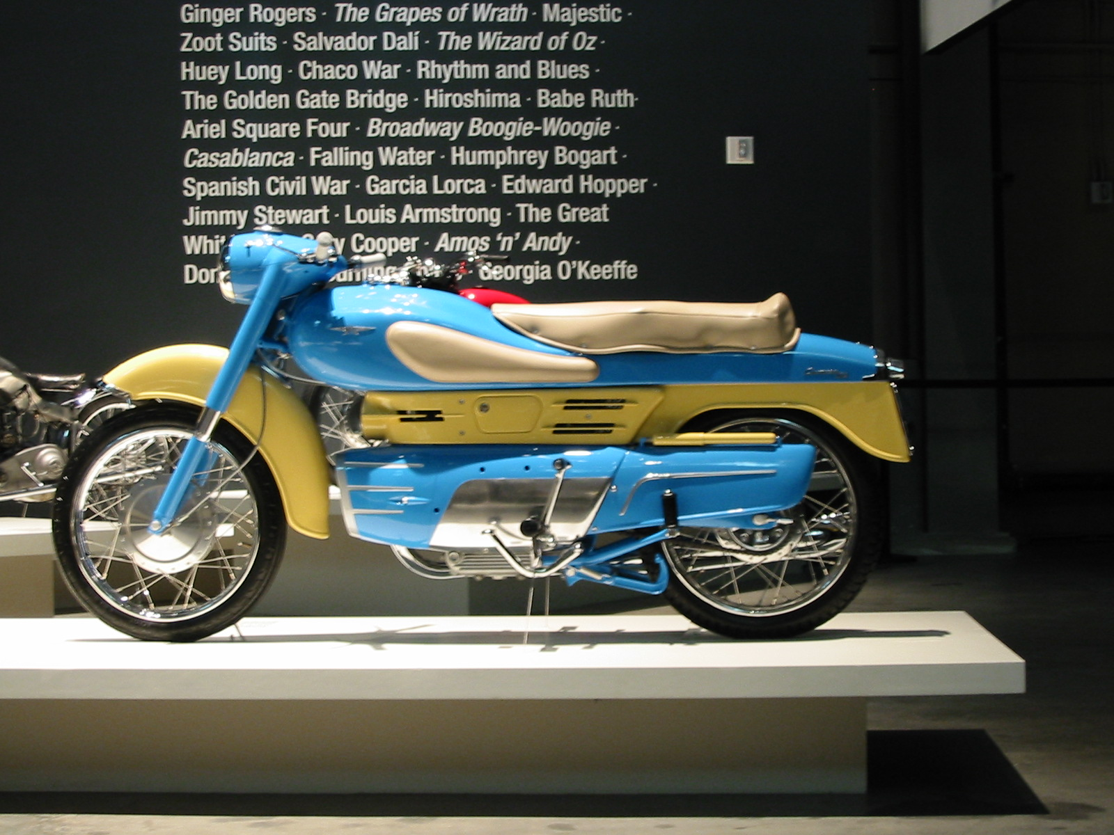 Aermacchi Chimera 250 at The Art of the Motorcycle - Guggenheim Las Vegas 2001–2003